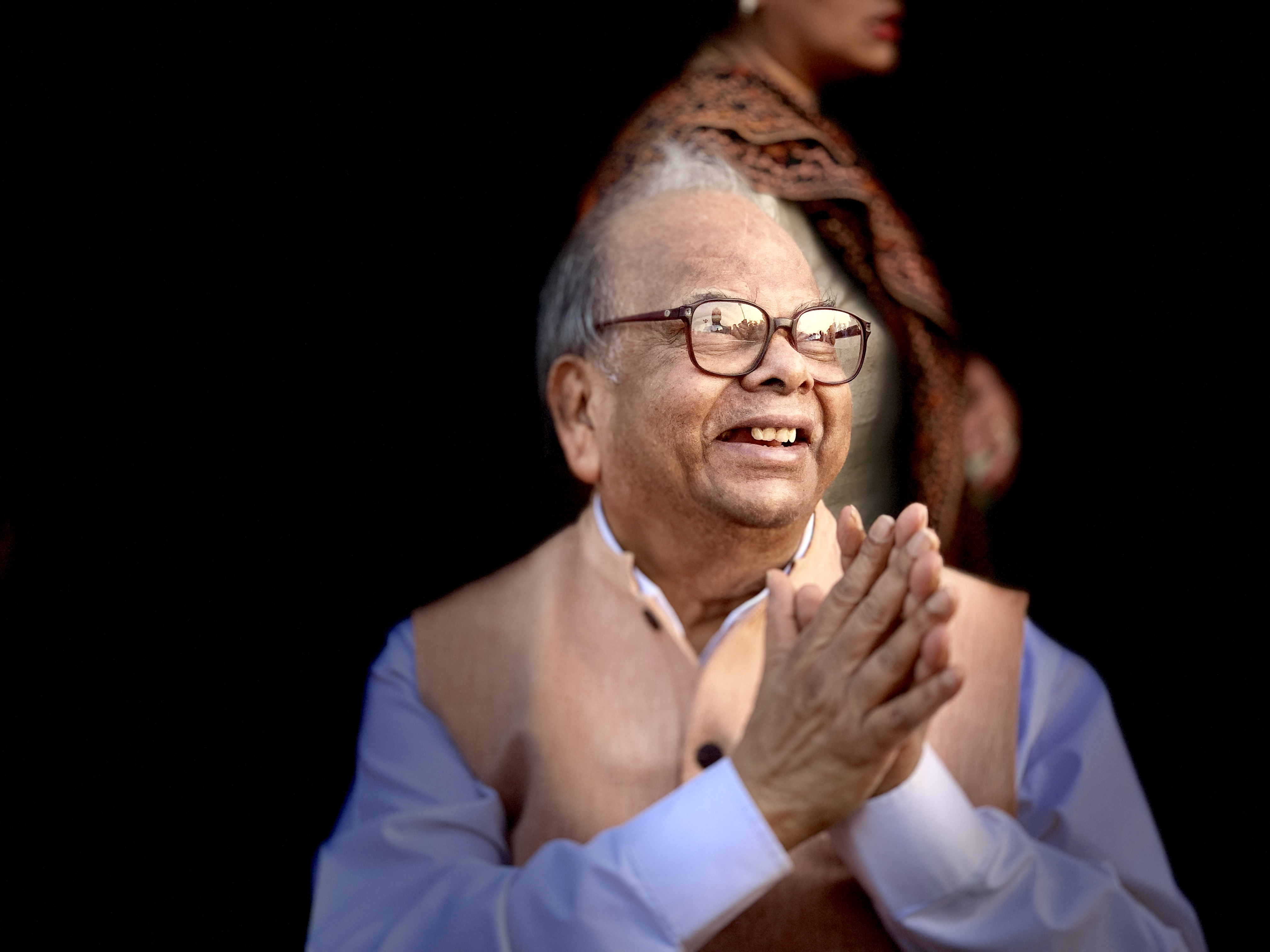 CALCUTTA BOOK FAIR 2019